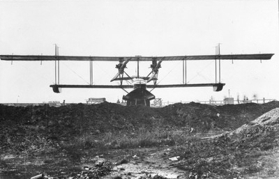 Photograph of Curtiss America (3580), prototype Felixstowe F.1 flying-boat.